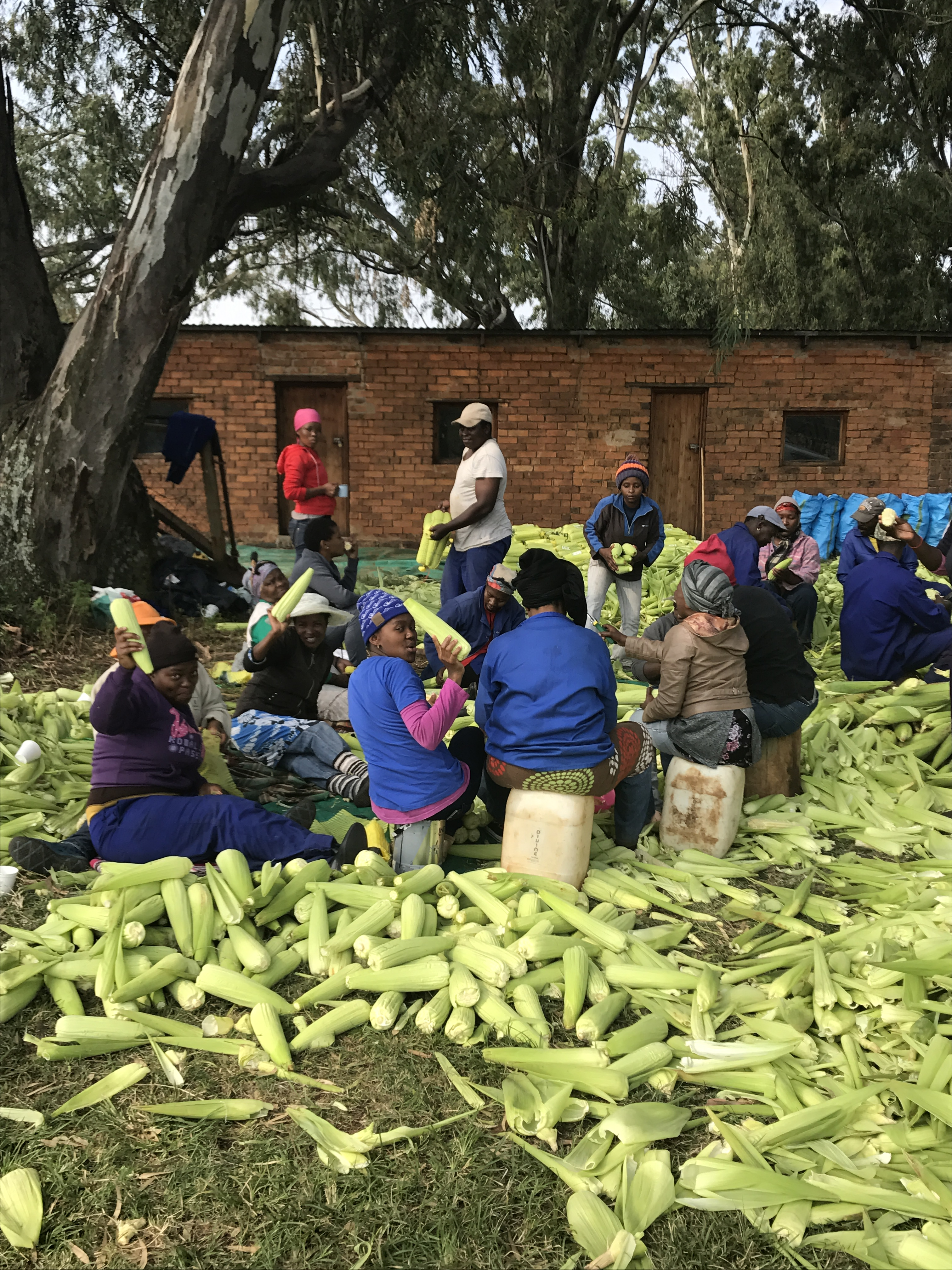 Women and men at work on a maize farm This is an image of "African people at work" from South Africa